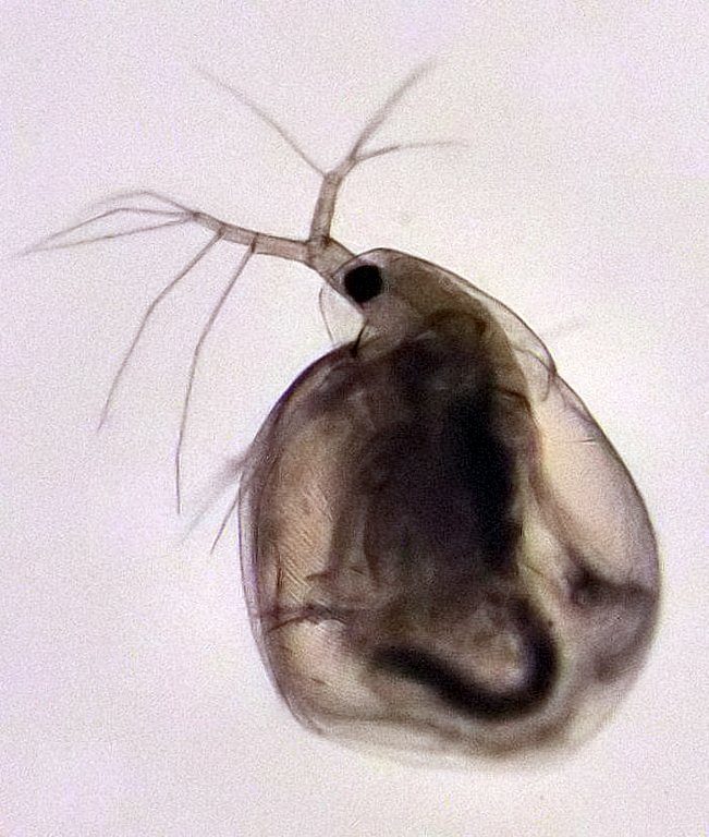 Simocephalus vetulus at Auckland Domain, pond A, NEW ZEALAND